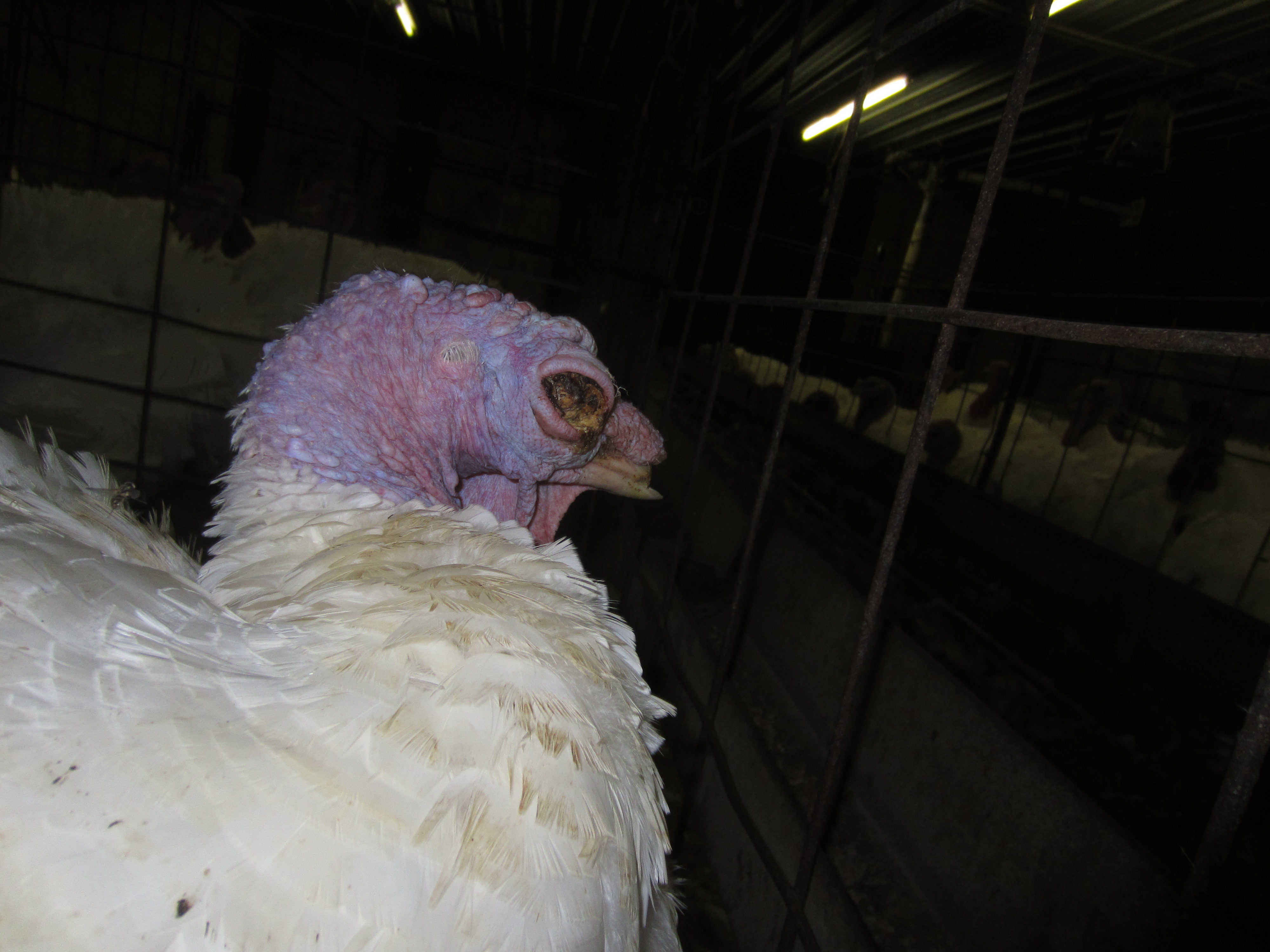 Picture revealing animal cruelty and neglect of turkeys taken during an undercover investigation at a Butterball farm in North Carolina. Photo taken by Mercy for Animals.